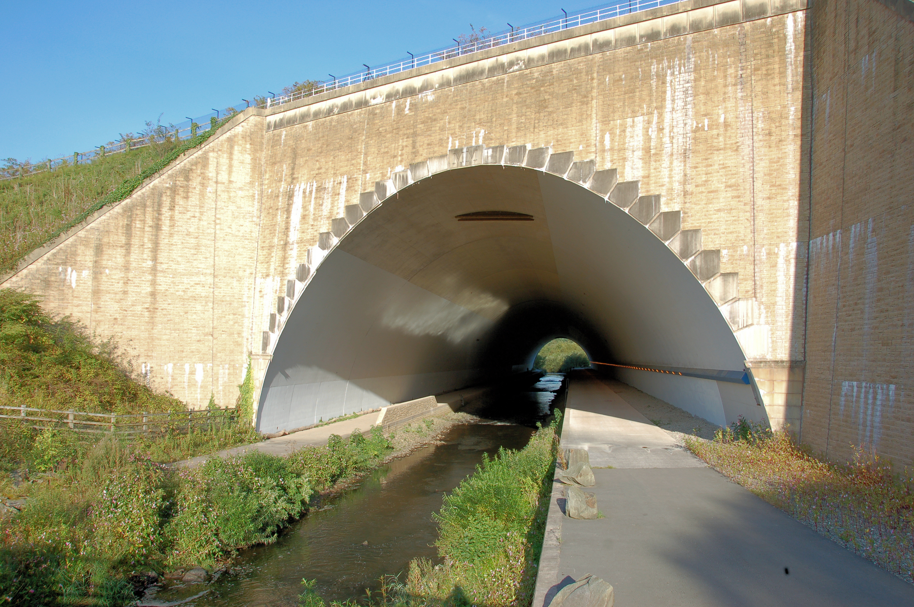 The River Bollin is carried in this tunnel beneath the southern runway (23L/05R) of Manchester Airport, England. Viewed from the south east.